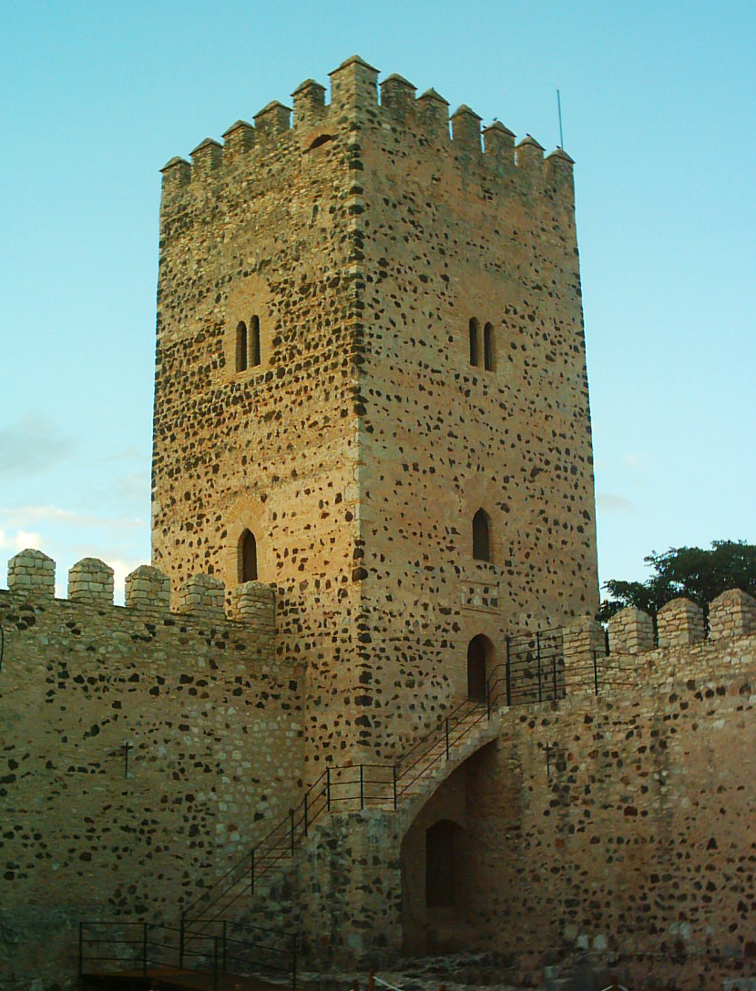 Castle of the Queen Berenguela in Bolaños de Calatrava (Ciudad Real)